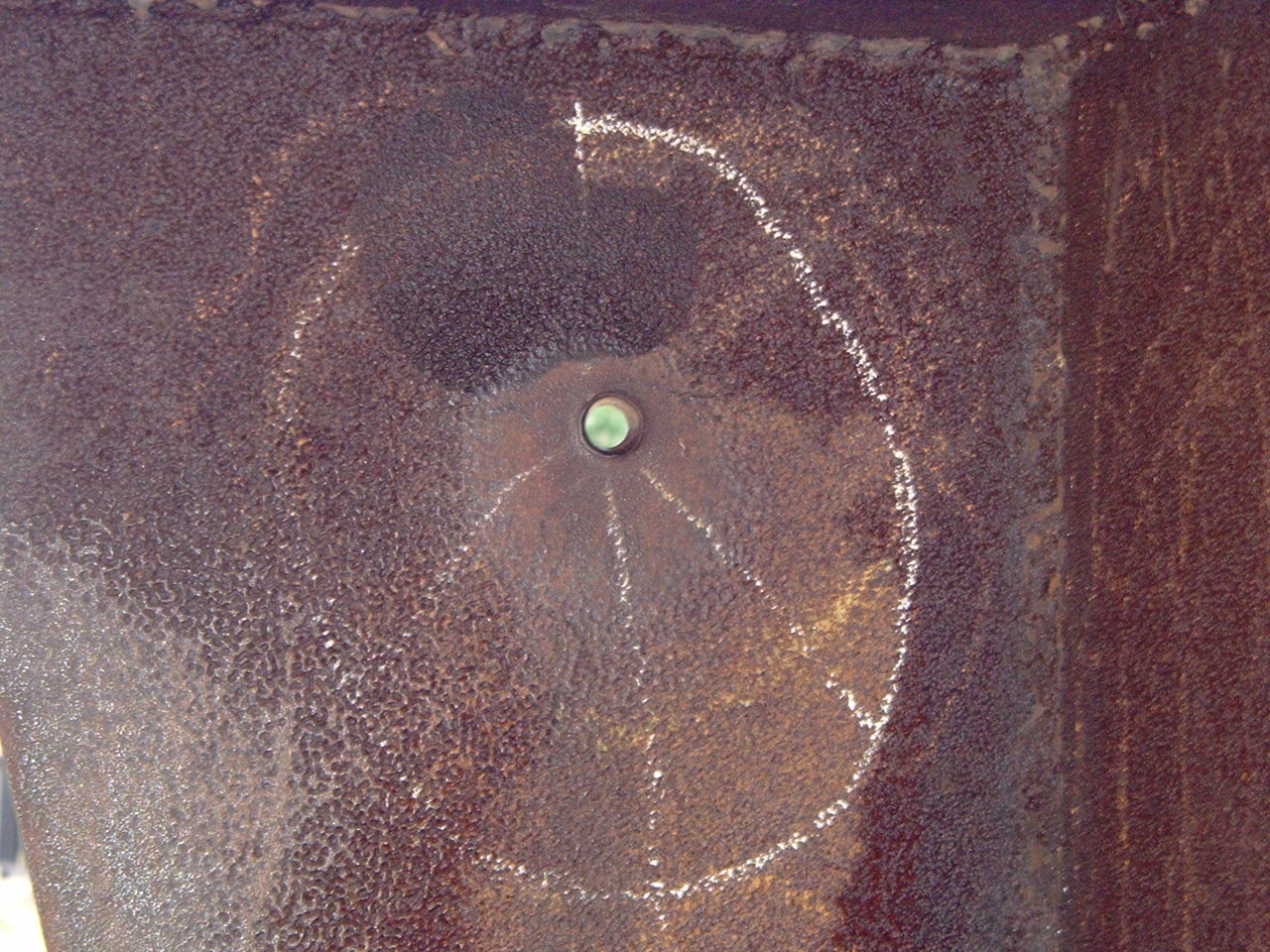 Bullet hole in a sculpture by Don Drumm| caused by a .30-06 round fired by the Ohio National Guard at Kent State on May 4, 1970. Photo by M. Stewart, July 8, 2007. Summary Bullet hole in the Solar Totem sculpture by Don Drumm caused by a .30-06 round fired by the Ohio National Guard at Kent State on May 4, 1970. Photo by M. Stewart, July 8, 2007.